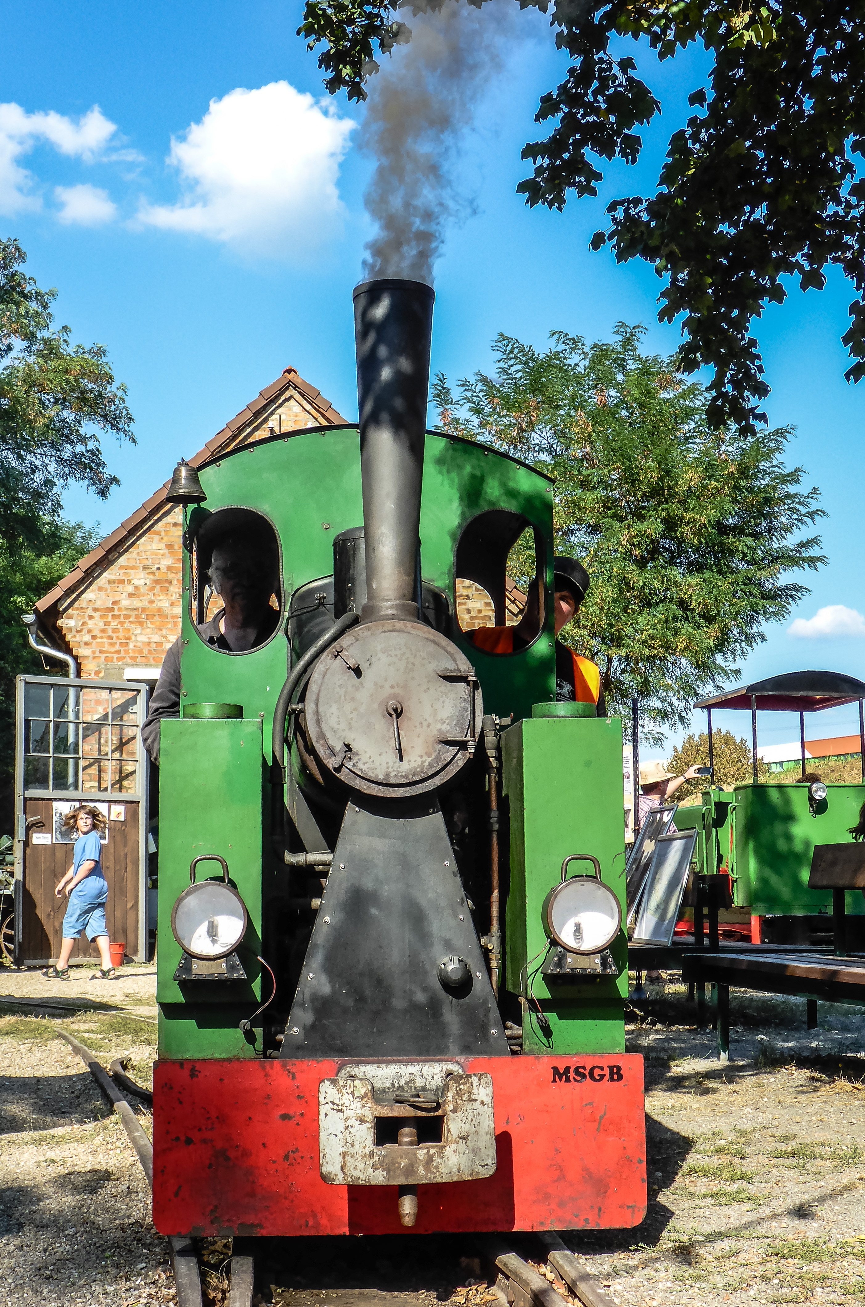 Manfred Schaible's Gartenbahn (MSGB) visiting 600mm-gauge steam locomotive at the / in Germany. Seen during the fifteenth anniversary weekend. Manfred Schaibles Gartenbahn unter Feuer & Dampf im Feldbahnmuseum Wiesloch, 2016